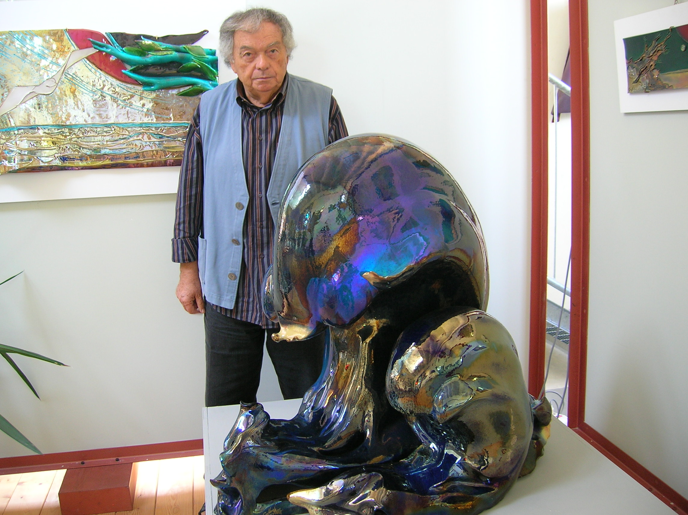 Goffredo Gaeta in his studio-workshop "La Cartiera" in Faenza, near the opera "ONDA" sculpture majolica reflections 85x62x95 cm.